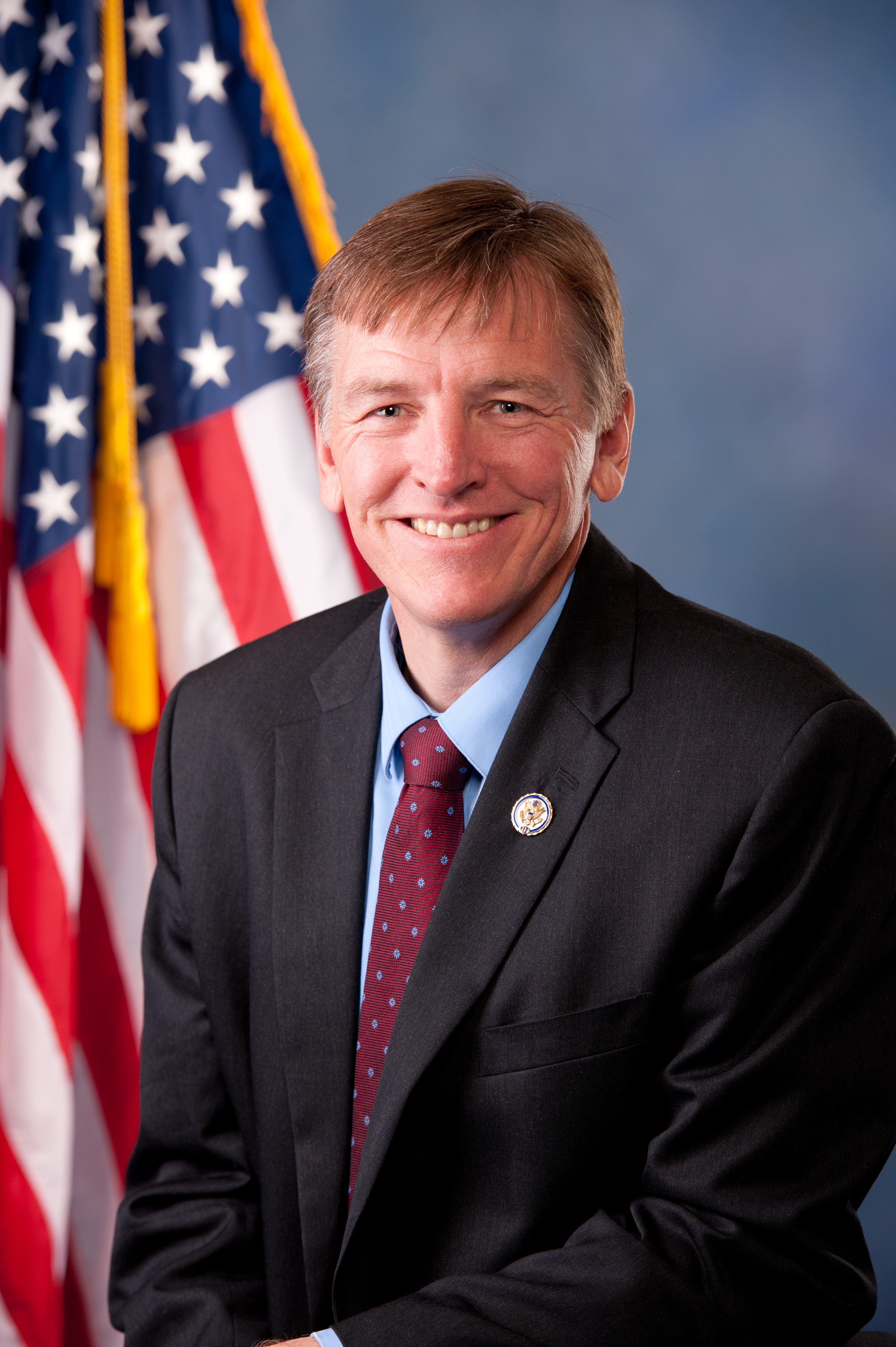 US Rep Paul Gosar, DDS